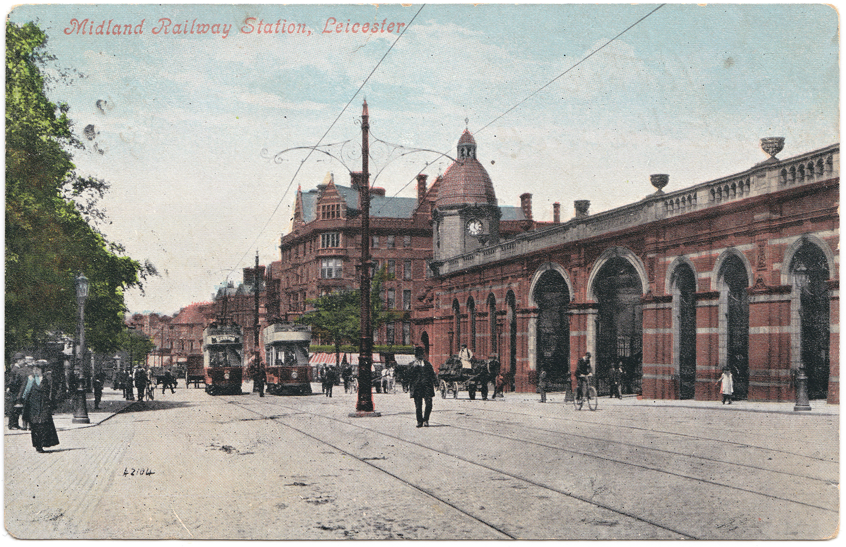 Leicester Railway Station, then called the Midland Railway Station. Postcard published in (or before) 1908, photographer unknown: therefore in public domain in UK copyright law.